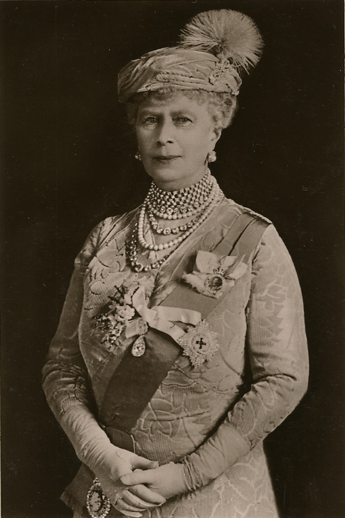 Queen Mary, photo by Bassano